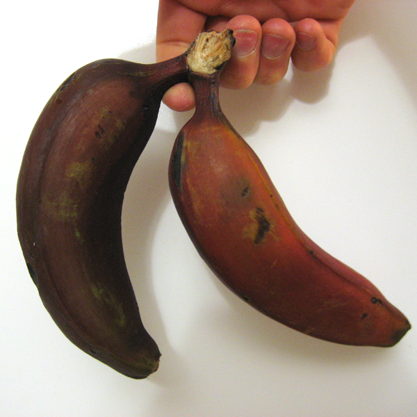 Red bananas. Bought in Canada, imported from Ecuador.